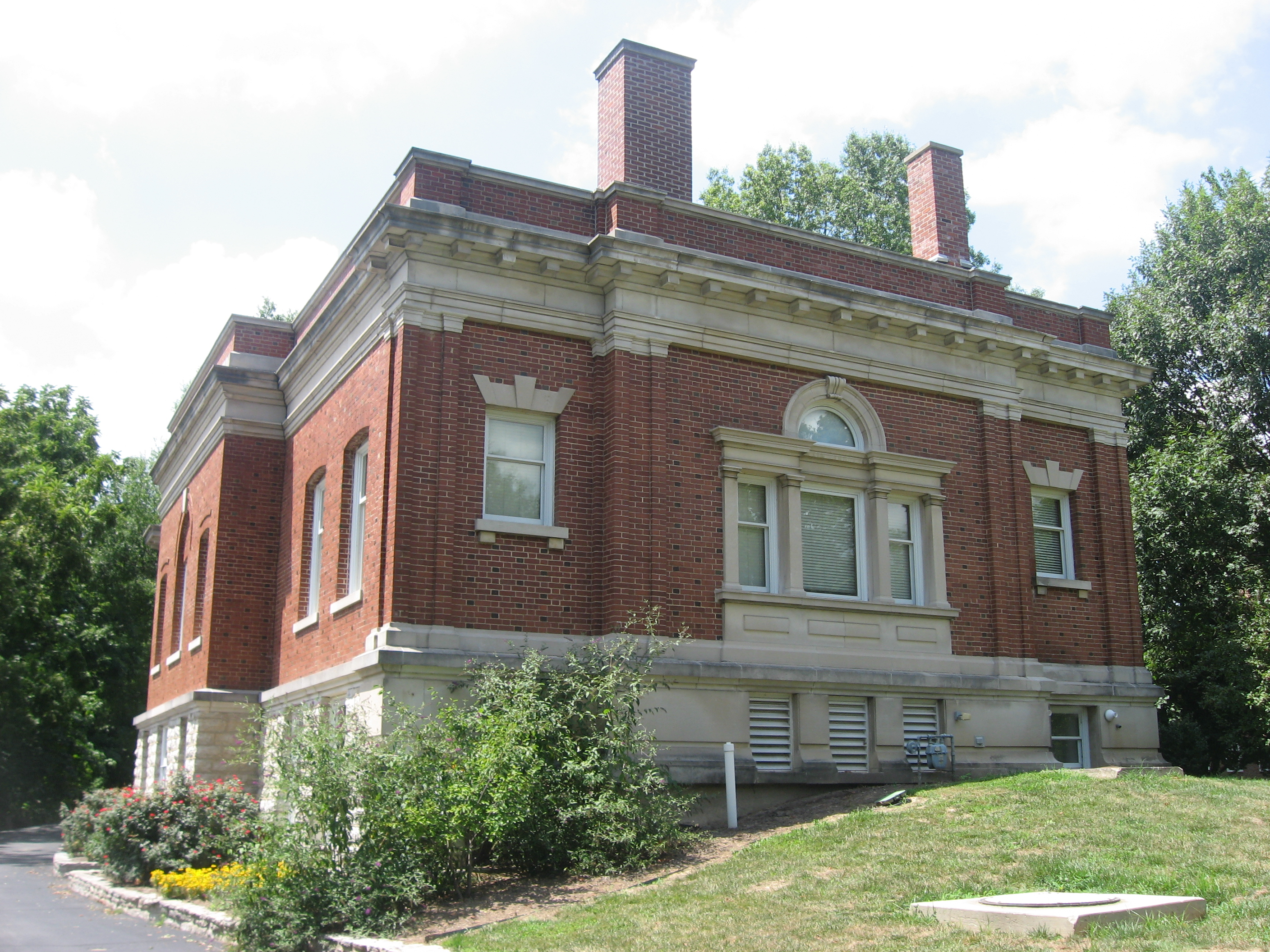 Eastern side and rear of Hendricks Hall (the Thomas A. Hendricks Library), located on the campus of Hanover College in Hanover, Indiana, United States. Built in 1903, it is listed on the National Register of Historic Places.